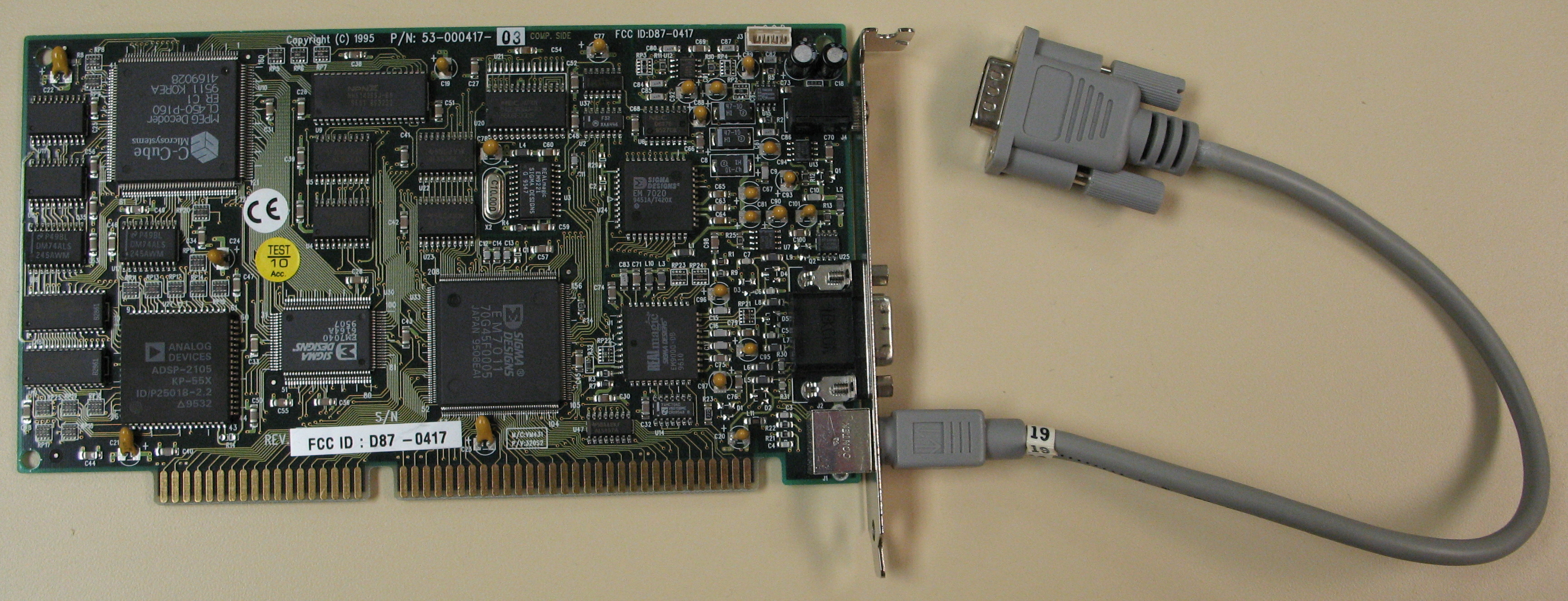 High res photo of card